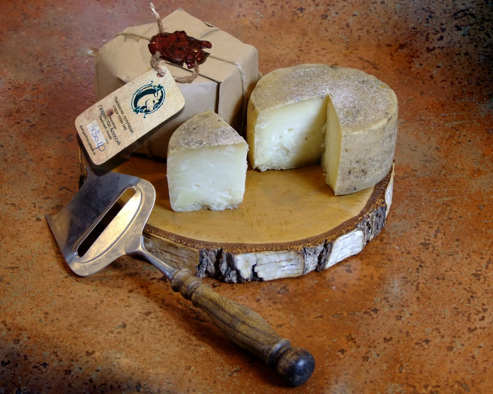 Artisan goat cheese produced on "Gazdinstvo Aleksic" farm from farmstead milk. Ranilović on Kosmaj, Serbia